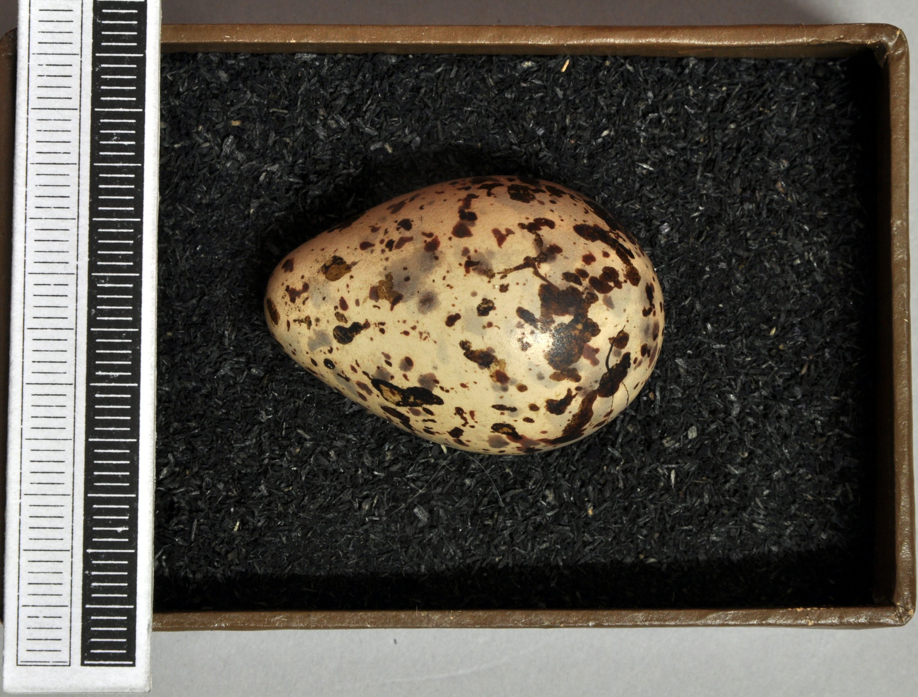 Marsh sandpiper Tringa stagnatilis , egg, Coll. Museum Wiesbaden